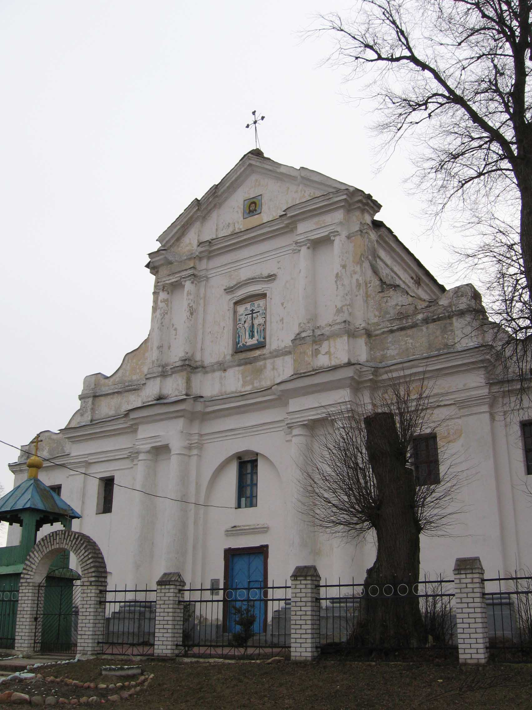 Вiстычы, царква Узвышэння св. Крыжа (1678) - Vistychy, church of the Exaltation of the Holy Cross (1678)